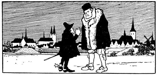 Illustration by Otto Ubbelohde to the fairy tale The King of the Golden Mountain